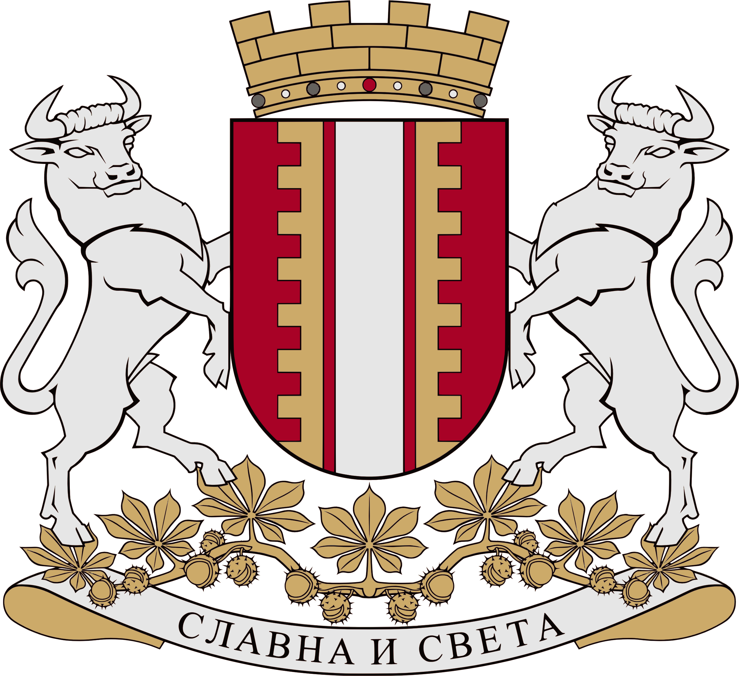 Proposed Coat of Аrms of Banja Luka (introduced in 2015). This Coat of Arms was designed by Zoran Nikolić and Srđan Marlović. It was never adopted. I vectorized it.